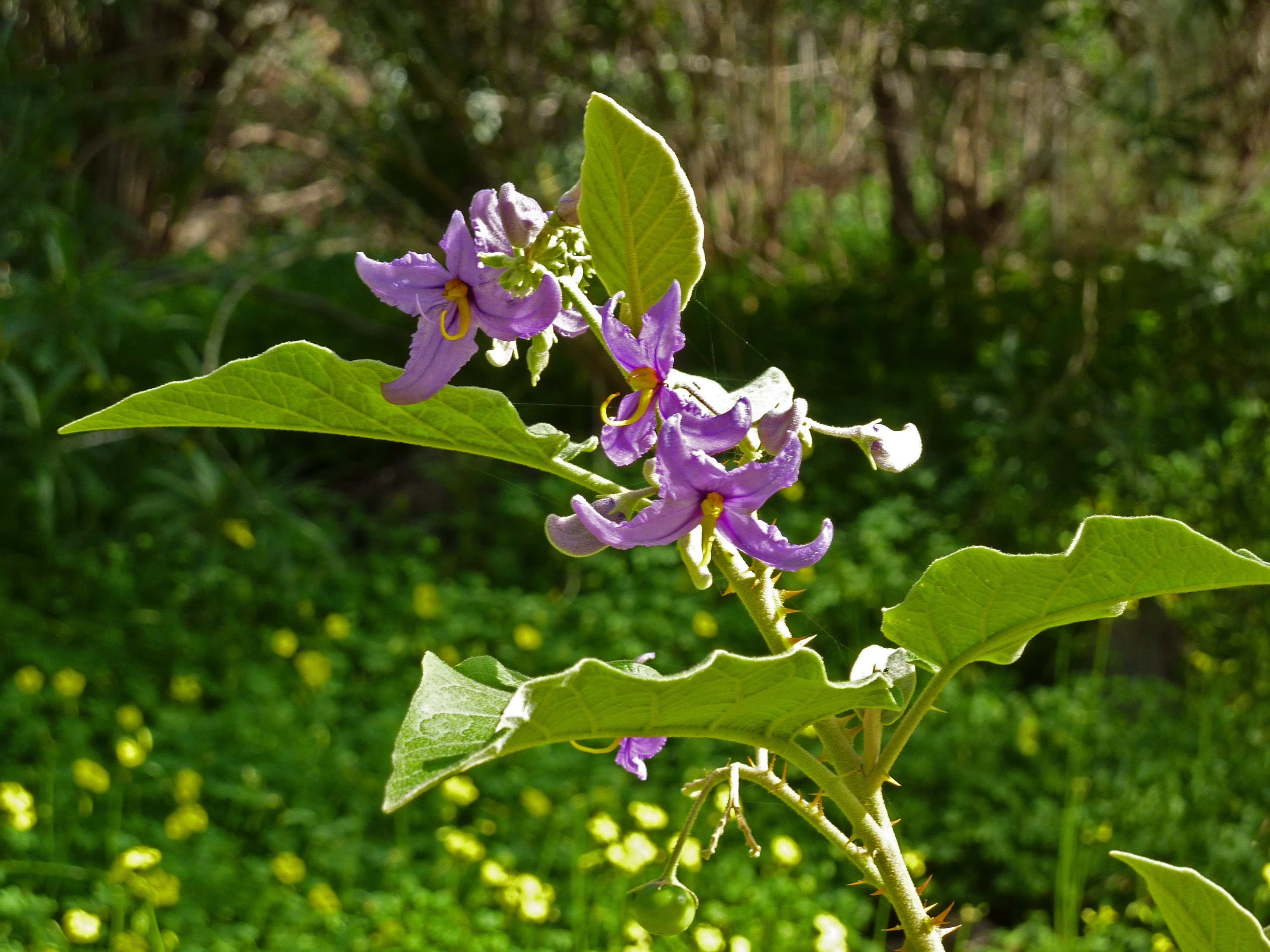 Solanum vespertilio in the Jardín Botánico Canario Viera y Clavijo.